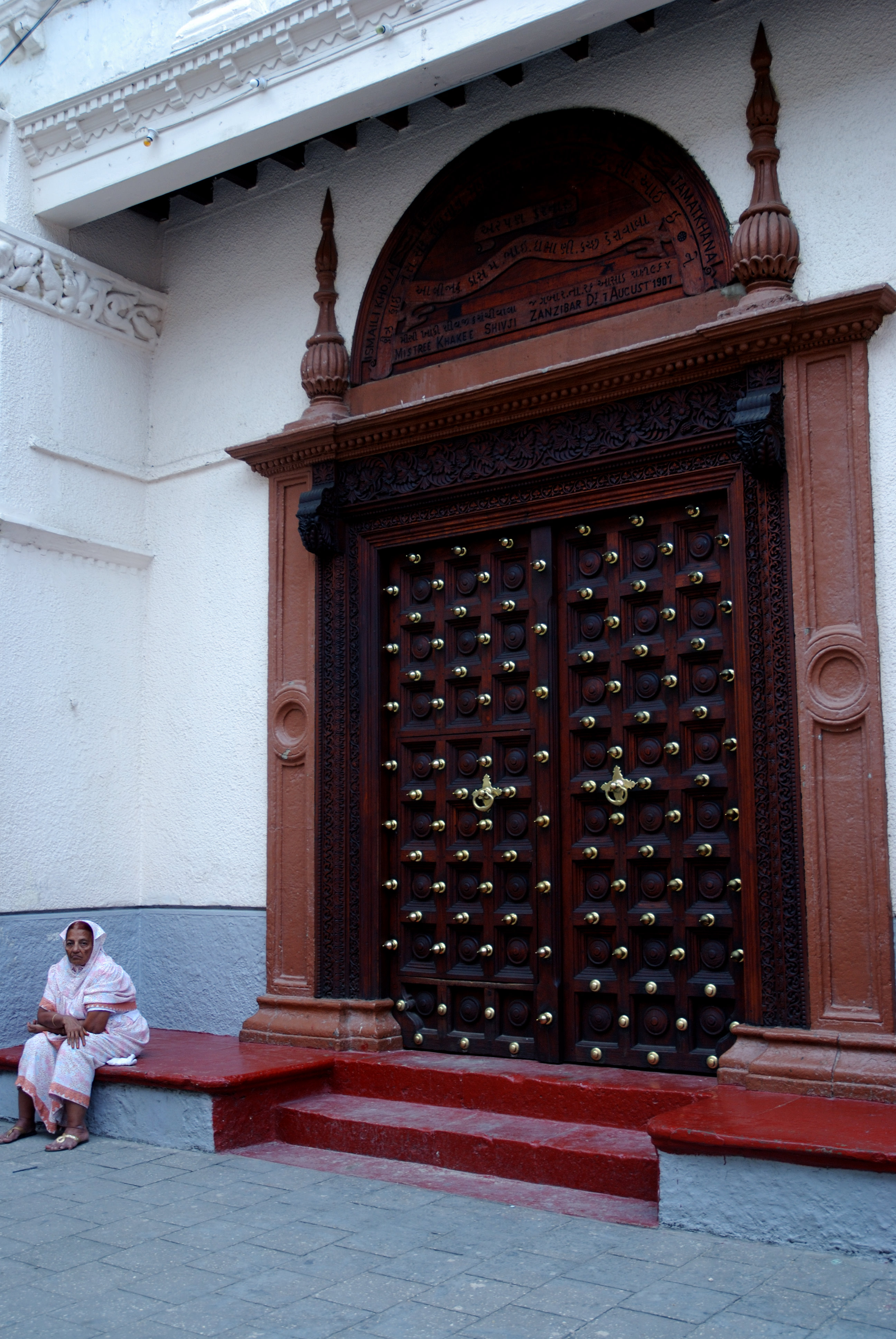 A typical decorated carved wooden door in Stone Town, Zanzibar. This is an Indian-style (i.e., rounded top) style door, as opposed to Arab-style (rectangular) doors.